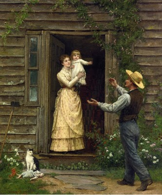 Jennie Augusta Brownscombe (1850-1935) The Homecoming 1885